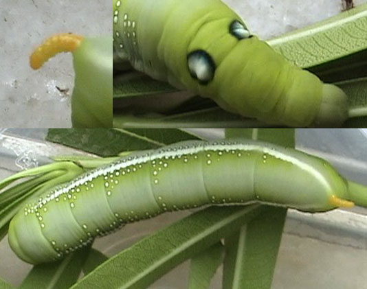 Oleander Hawkmoth (Daphis nerii) caterpillar (collage)